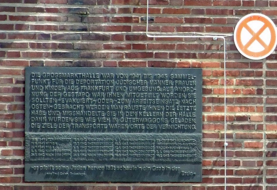 commemorative plaque about deportation transports of jewish people from this place, between 1941 and 1945.